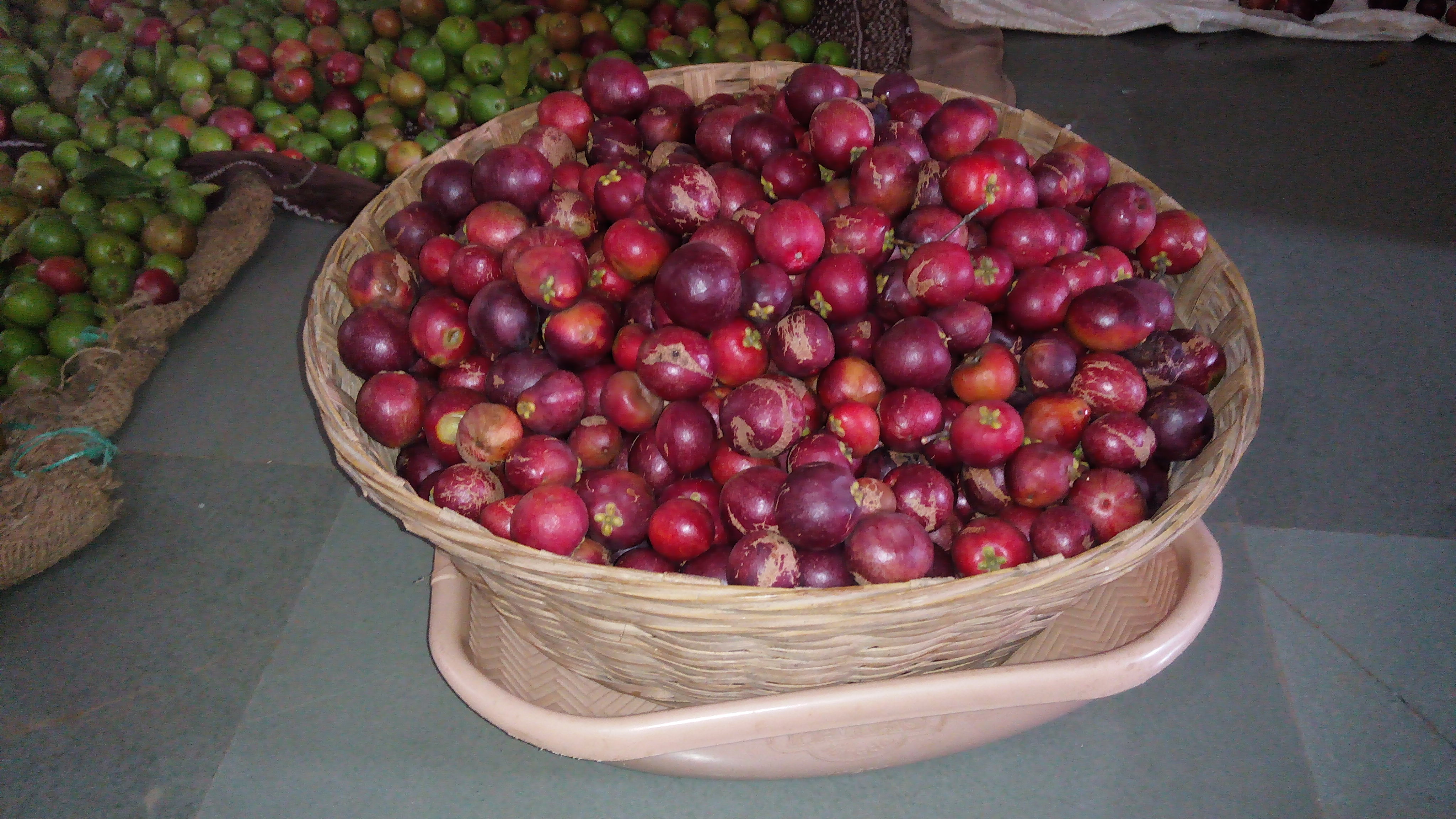 kokam